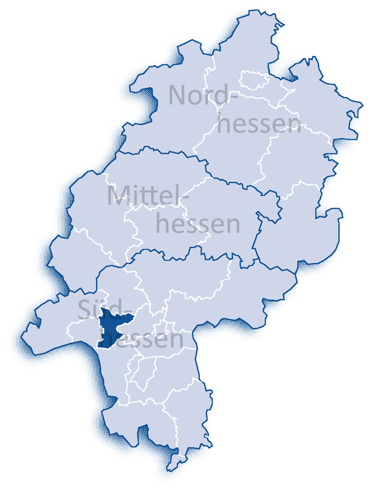 The map shows the district Main-Taunus-Kreis. A district in Hesse